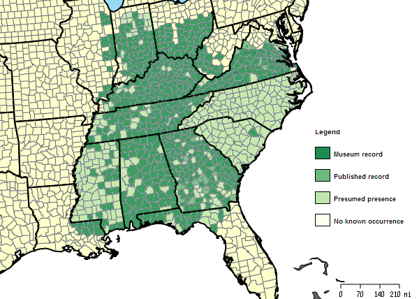 This is a map of the historic extend of Eurycea cirrigera (the southern two-lined salamander), based on information found by the United States Geological Survey. Uses adapted data from the United States Amphibian Atlas Database